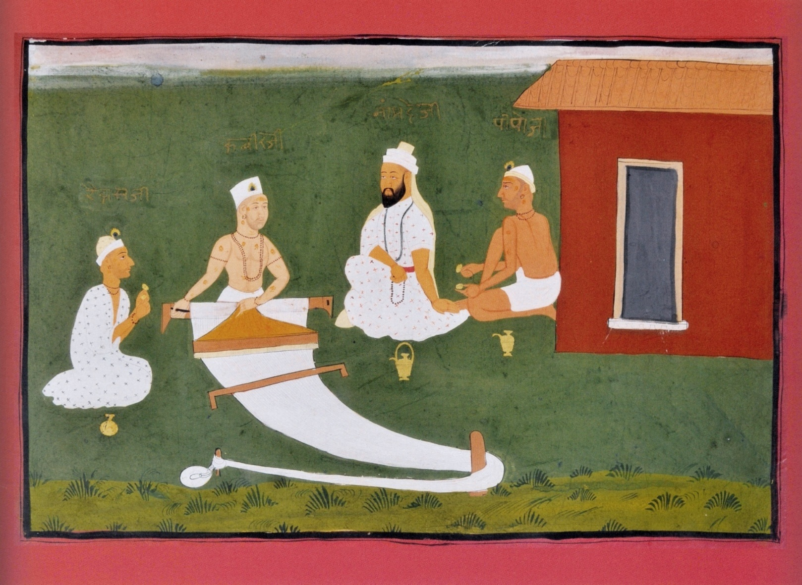 Saint Kabir with Namdeva, Raidas and Pipaji. Jaipur, early 19th century, National Museum New Delhi